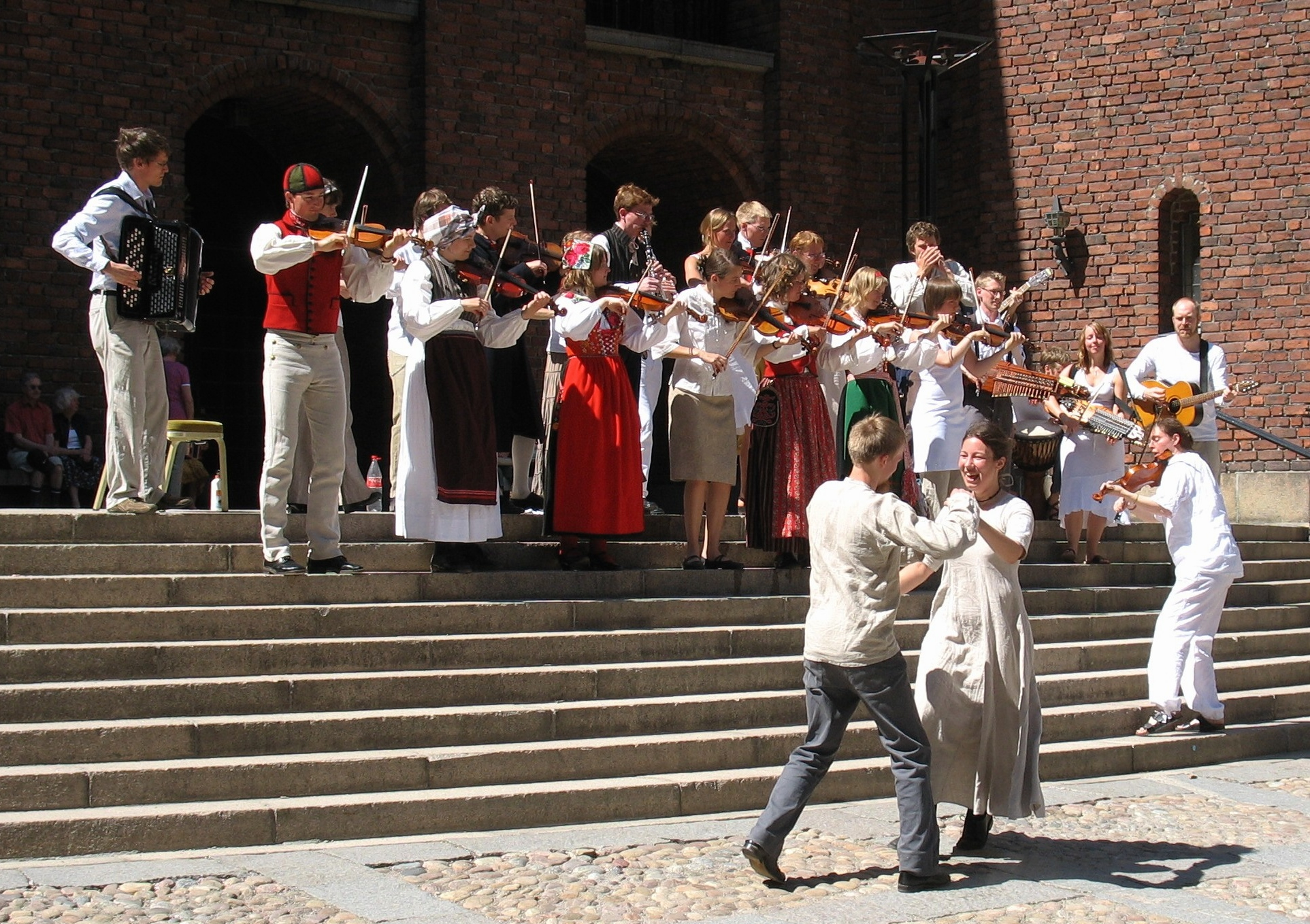 An orchestra playing Swedish folk music with dancers performing traditional folk dances at Stockholm City Hall on National Day 2007.